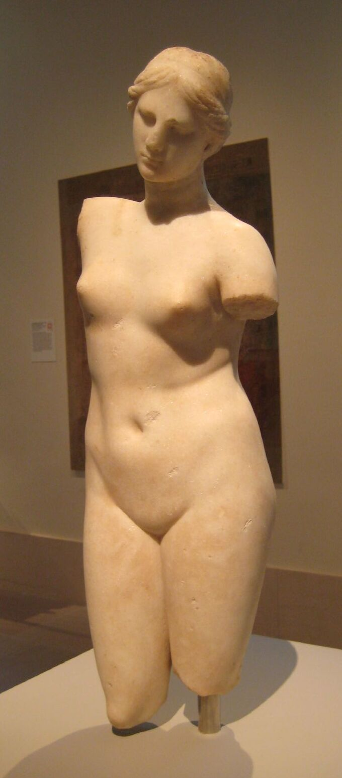 Greek Greek Marble Statue of Aphrodite Anadyomene, Hellenistic, 2nd century B.C. Metropolitan Museum of Art, New Yor city.